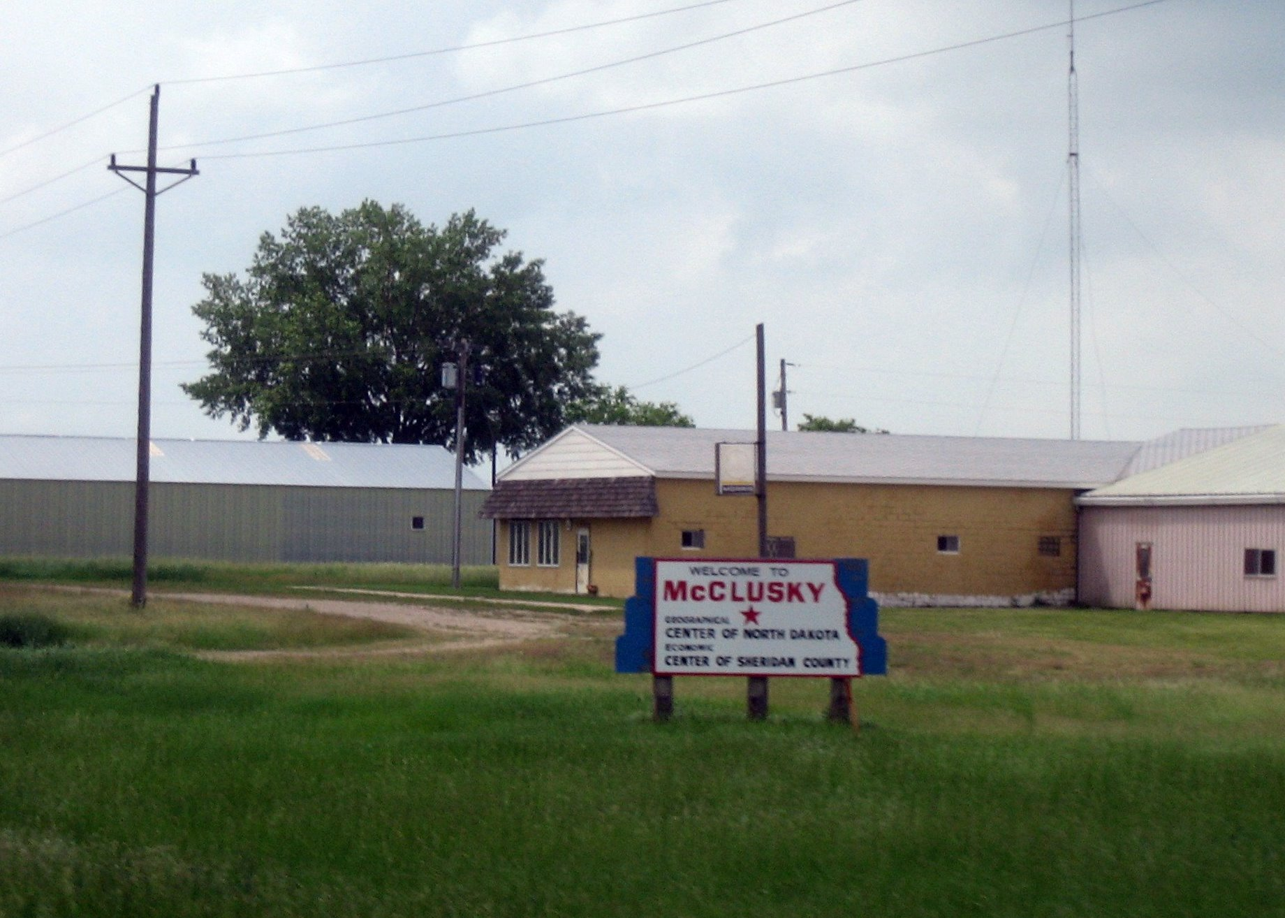 Sign entering McClusky, North Dakota along Highway 200 westbound.